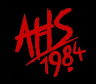 ahs season 9 logo